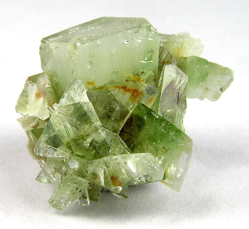 Augelite Locality: Ancash Department, Peru (Locality at ) A large crystal of augelite, measuring 2 cm across, stands out in this cluster. It is small overall but, for overall quality, absolutely TOPS and one of my favorites in the whole lot here! it is finely crysatllized all around. 3 x 3 x 2.8 cm